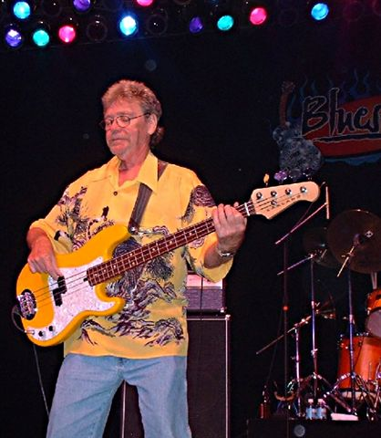 Photo of musician Donald "Duck" Dunn